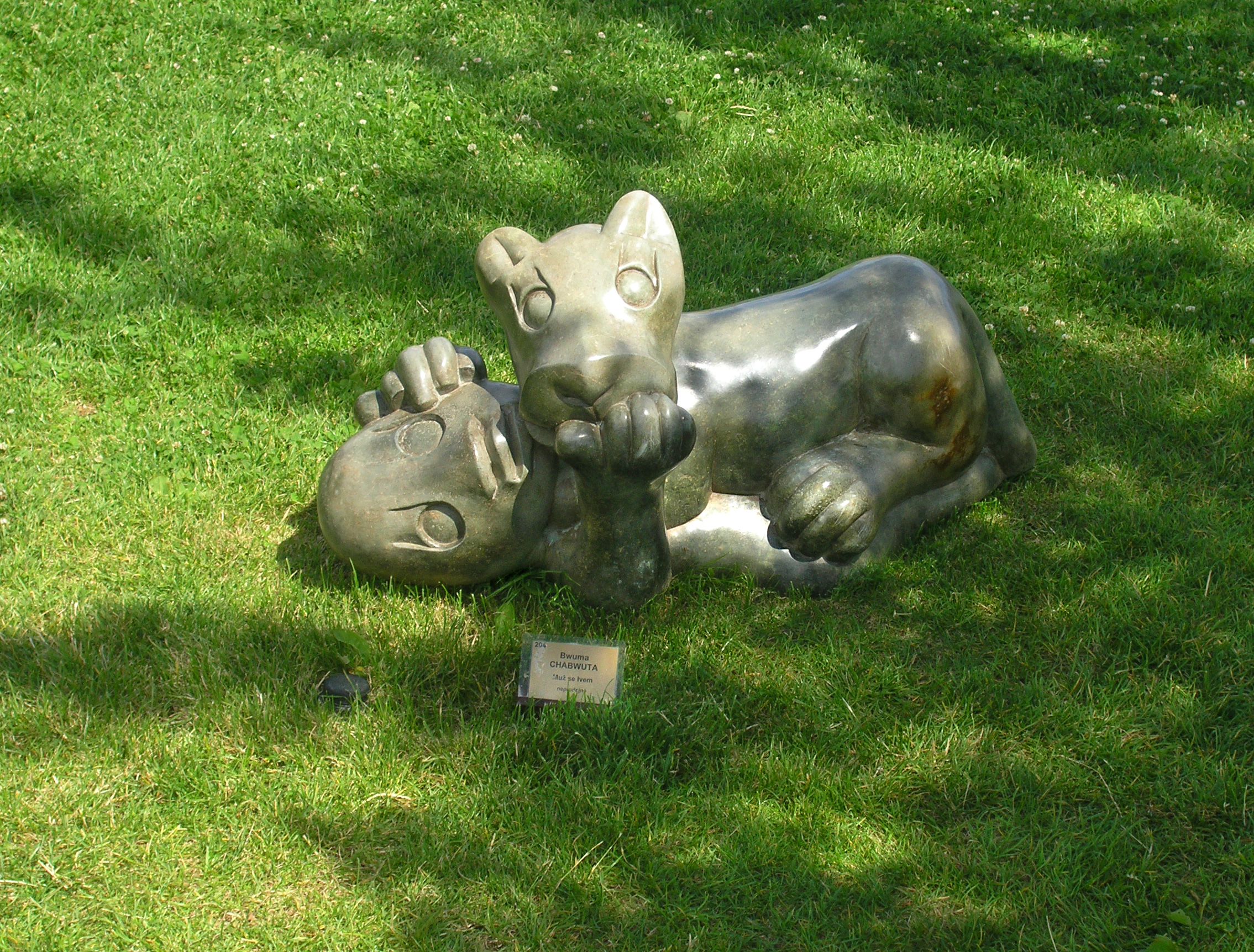 Statue A man with a lion by Bwuma Chanwuta. Exposition Statues of Zimbabwe in Prague Botanic Garden